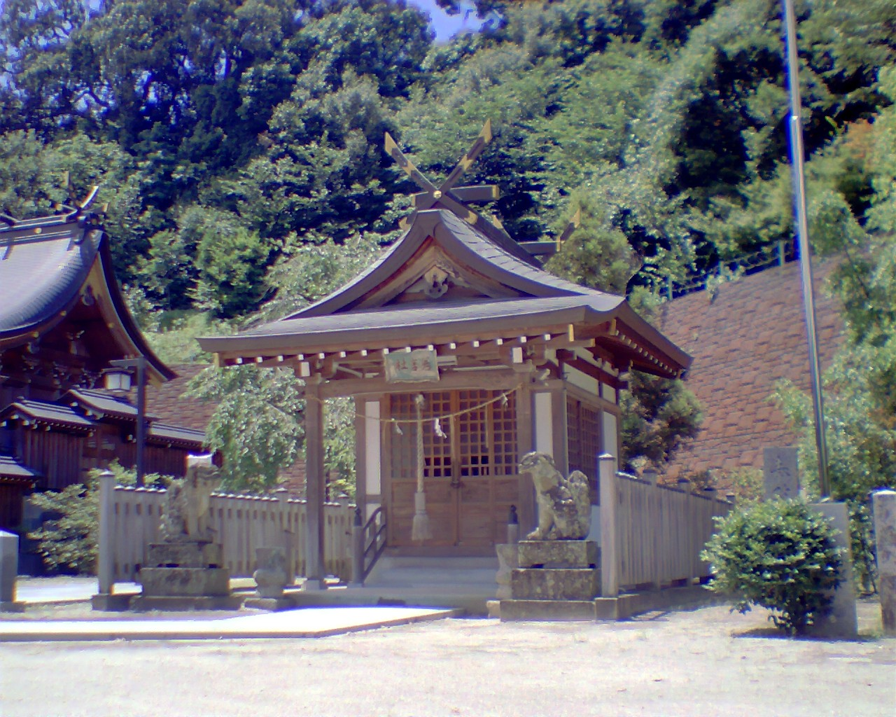 This photograph is a mini Jinja called Wakamiya-sha (ja : 若宮社) on a shrine named 'Kasuga shrine' (or 'Kasuga jinja' , ja : '春日神社'), in the Kasuga city, Fukuoka prefecture, Japan.Tradition says that this shrine originated with onshrine in Amenokoyaneno-mikoto by the Prince Nakanooe (Emperor Tenchi) long ago, and its famous for the new year's event 'Kasuga no Mukooshi'(ja : '春日の婿押し').